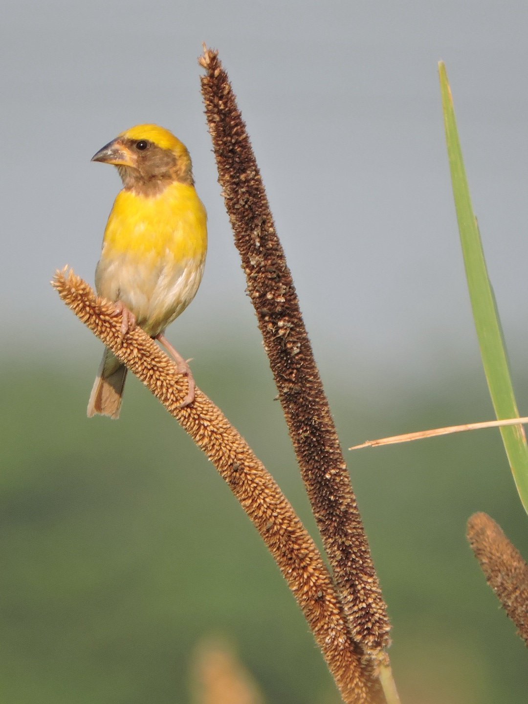 Male Baya Weaver Ploceus philippinus, Village saketri, near Chandigarh, India